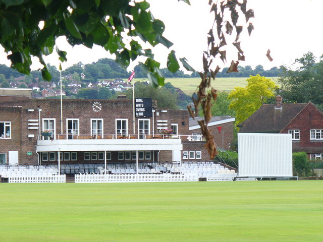 Guildford Cricket Club The ground of this large club is on Woodbridge Road and is used for occasional Surrey CC matches. In the distance is Guildown, the eastern end of the Hog's Back.